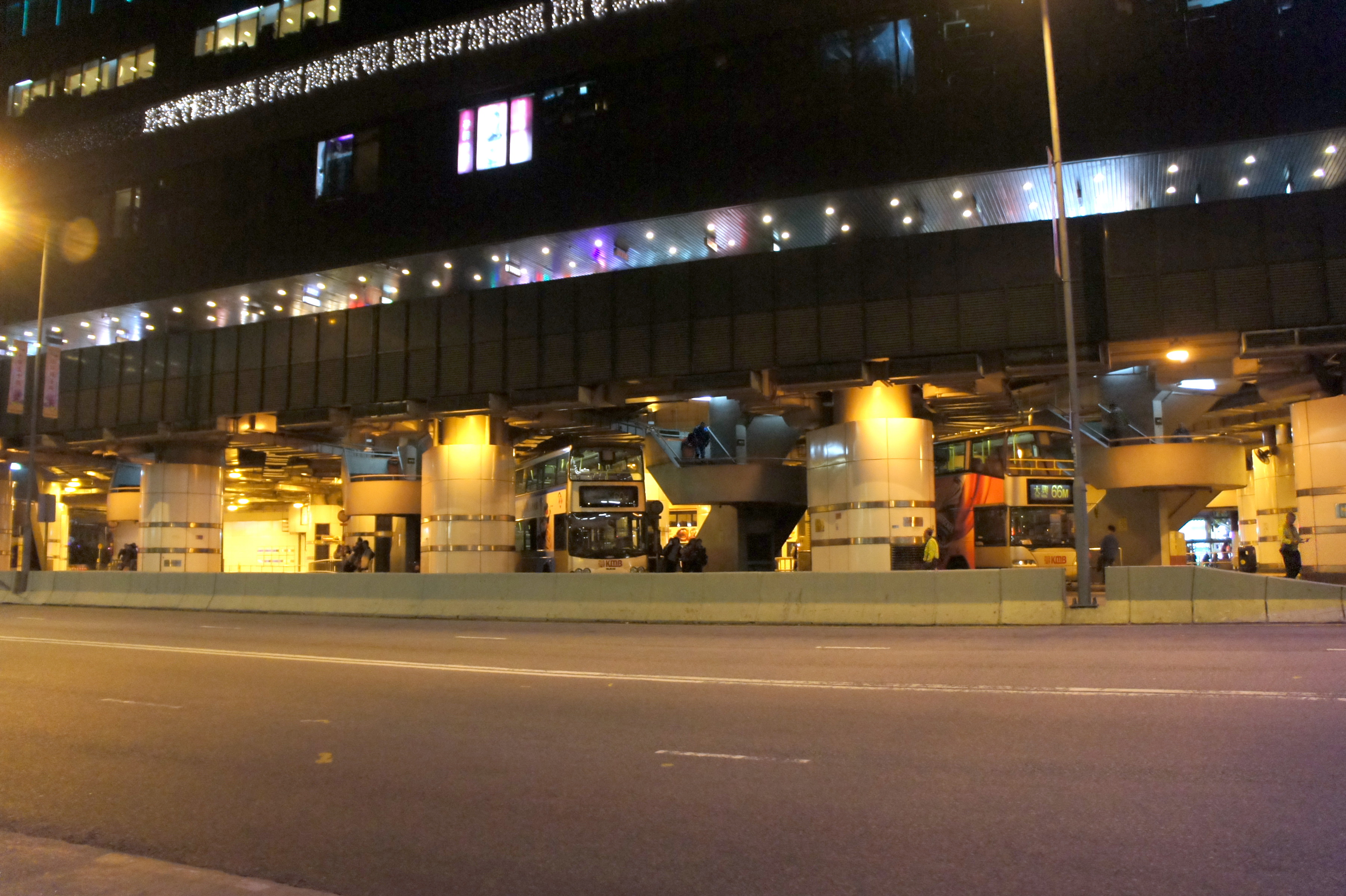 Tsuen Wan Station Public Transport Interchange, Tsuen Wan, Hong Kong.